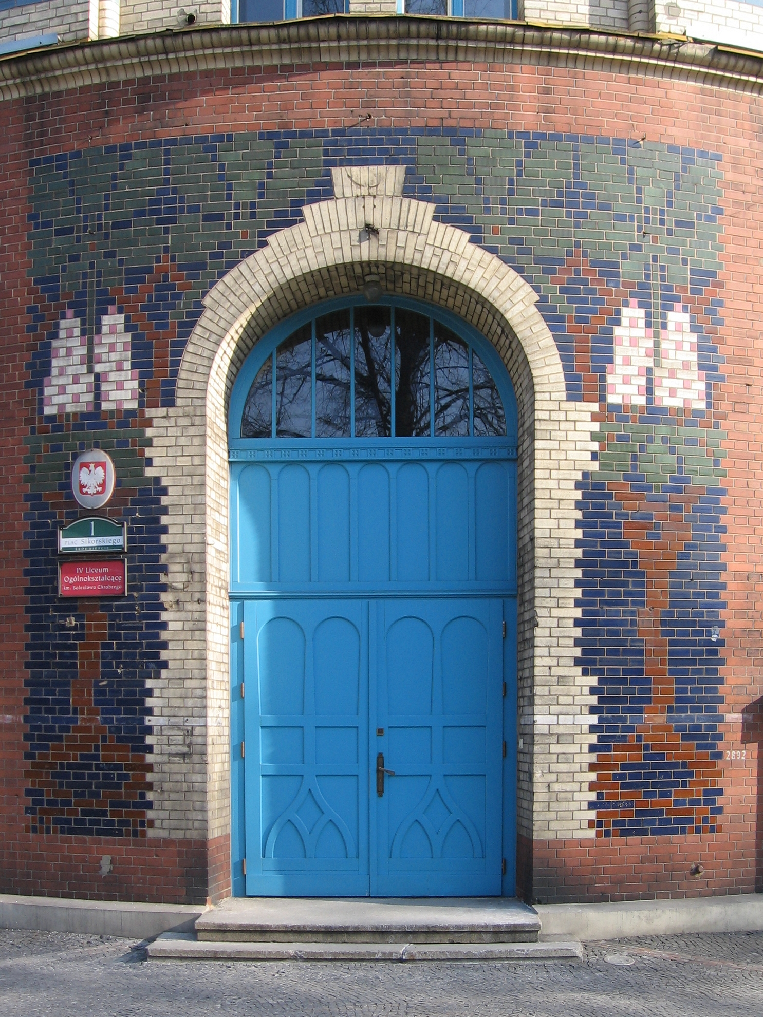 The doors to the school building in Bytom, W. Sikorskiego square 1, Poland.